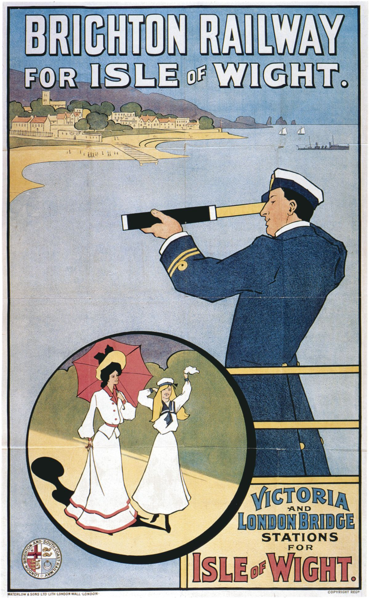 LBSCR Railway poster